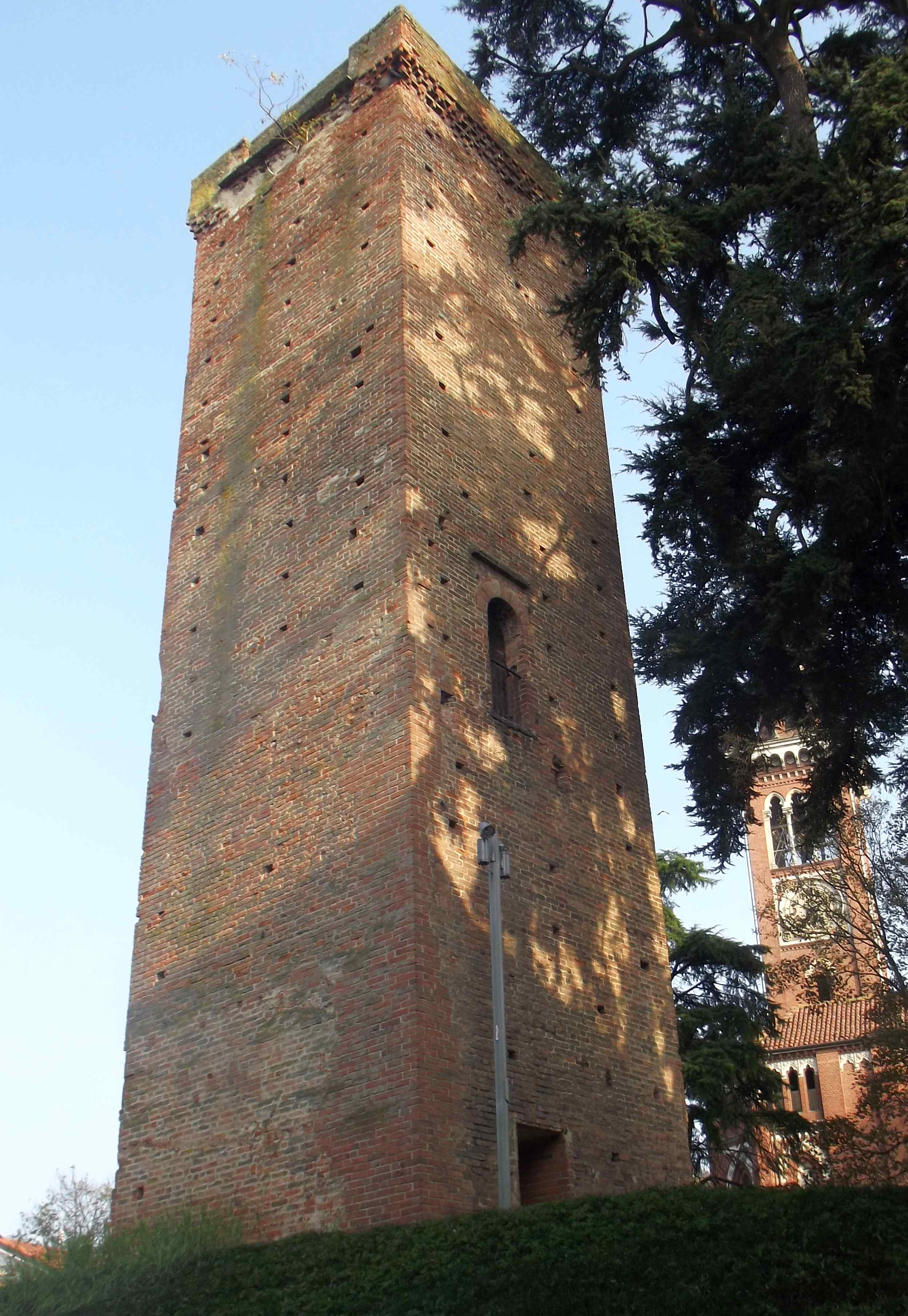 Trofarello (TO, Italy): town tower